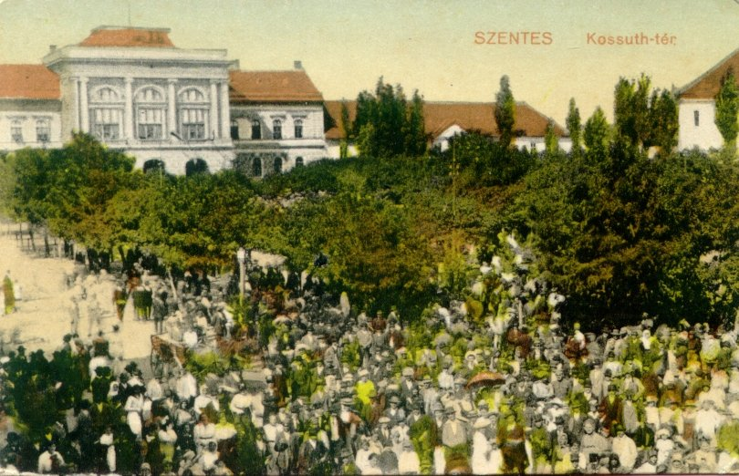 People's Assembly in Kossuth square (Szentes 1910)